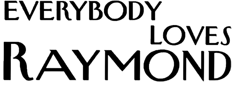 Title card for Everybody Loves Raymond.